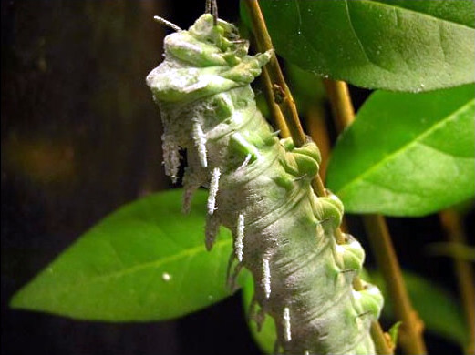 Atlasspinner (Attacus atlas)